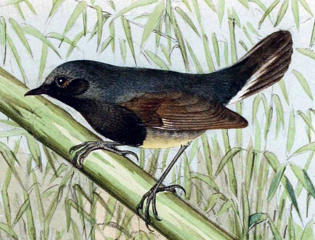 « Larvivora obscura » = Calliope obscura (Blackthroat) - male